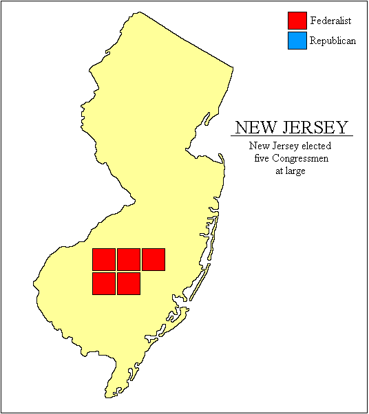 Congressional district map of New Jersey for the 5th Congress, 1796